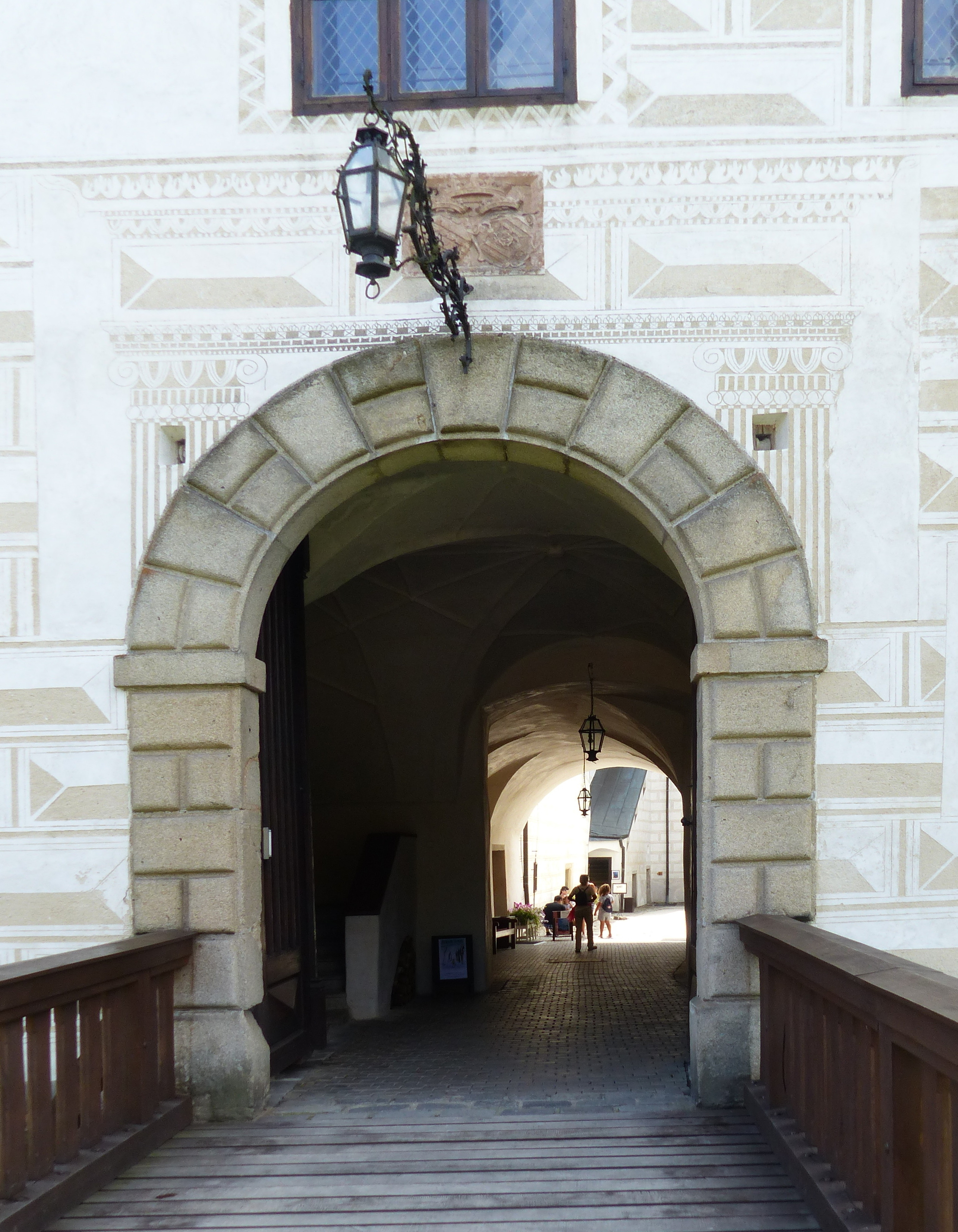 Rožmberk ( Czech Republic ). Lower castle - Castle gate.